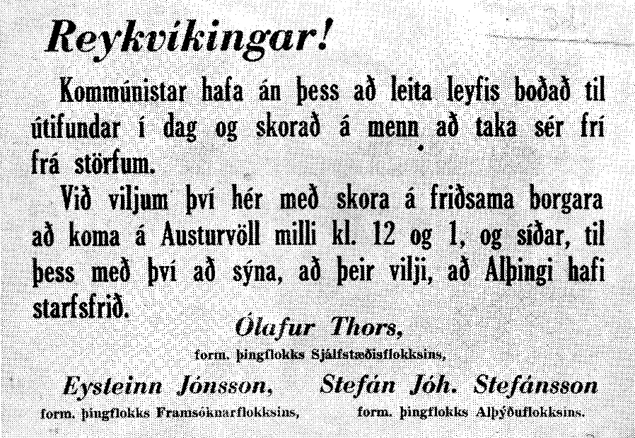 Leaflet distributed by order of the Icelandic governement urging "peaceful citizens" to show up at Austurvöllur in front of the parliament Althingi "to show that they want Althingi to be able to function properly".